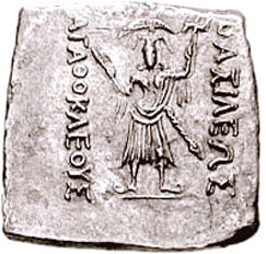 Balarama Samkarshana on a coin of Agathocles of Bactria circa 180 BCE